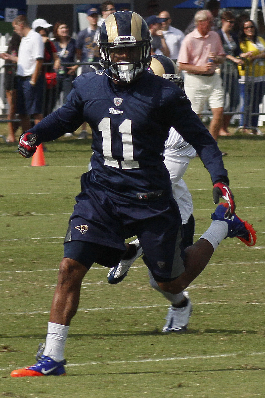 Rams player Tavon Austin, 2013.